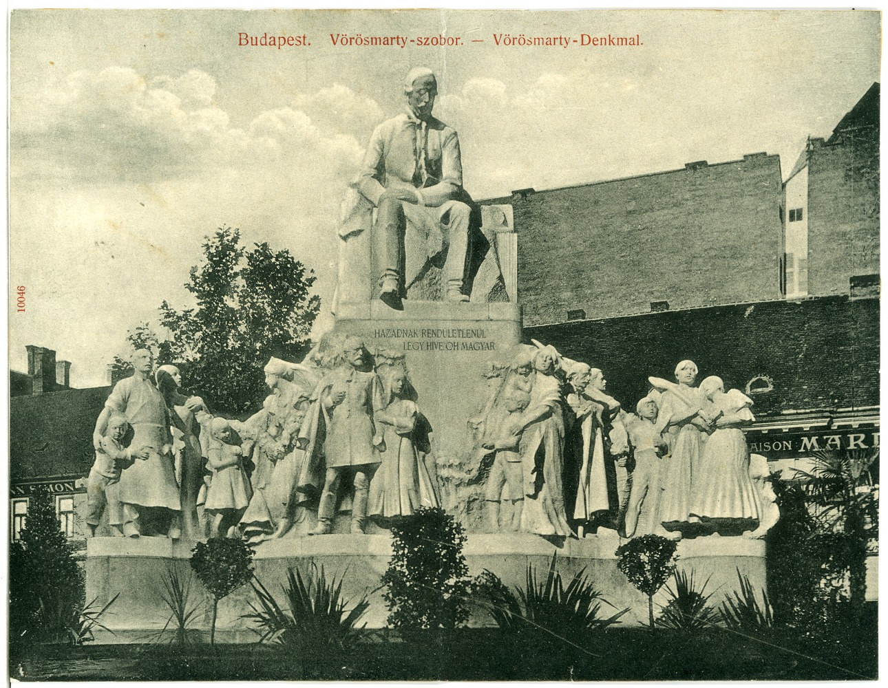 This postcard is from publisher Brück & Sohn in Meißen ( This postcard has a unique number 10046 and is available in a higher resolution at the publisher. This images was uploaded in a cooperation project between Wikipedians and the publisher.